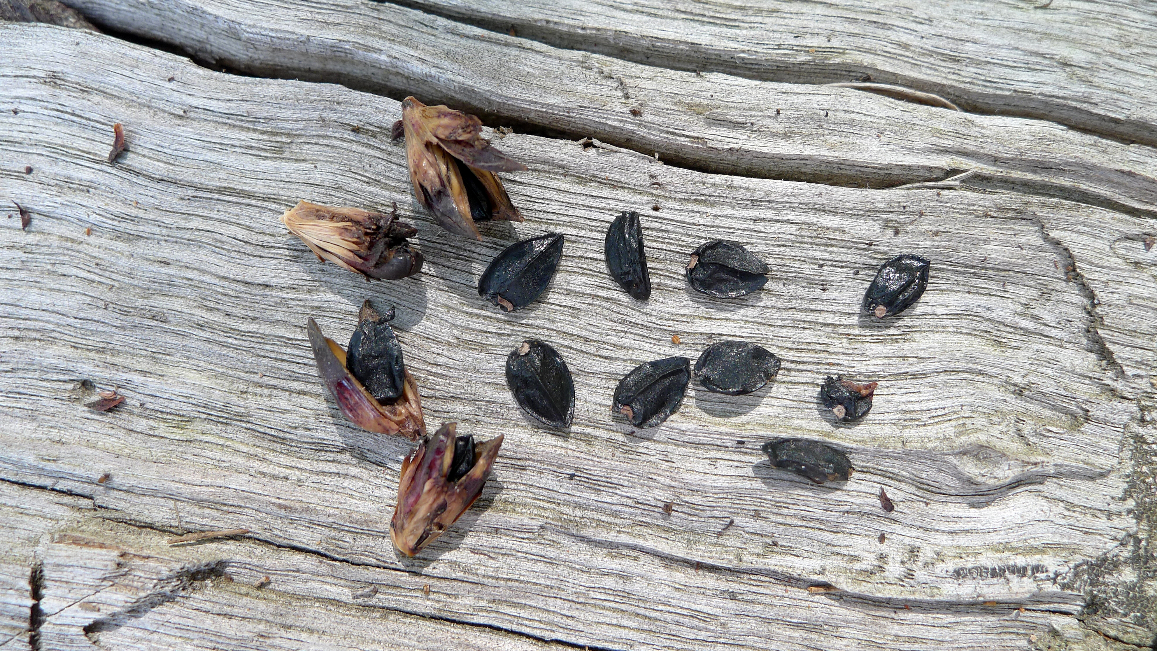 Grass tree, Xanthorrhoea latifolia subsp. maxima, seeds and capsules. Koonyum Range, Mullumbimby, NSW, Australia, December 2014.